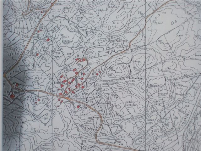 This is a map on the farm Eidbo, Tvedestrand, Norway.